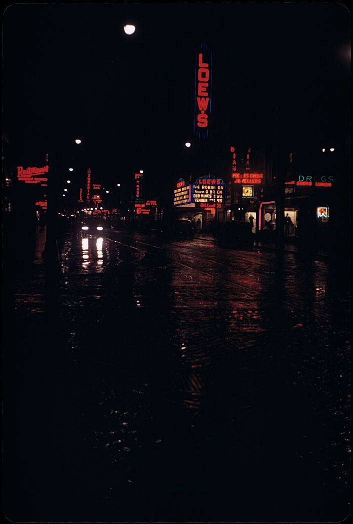 The Loews Theatre in Toronto, Ontario, Canada. The marquee indicates that the 1945 film, Our Vines Have Tender Grapes, is showing. Now restored and named the Elgin and Winter Garden Theatres.